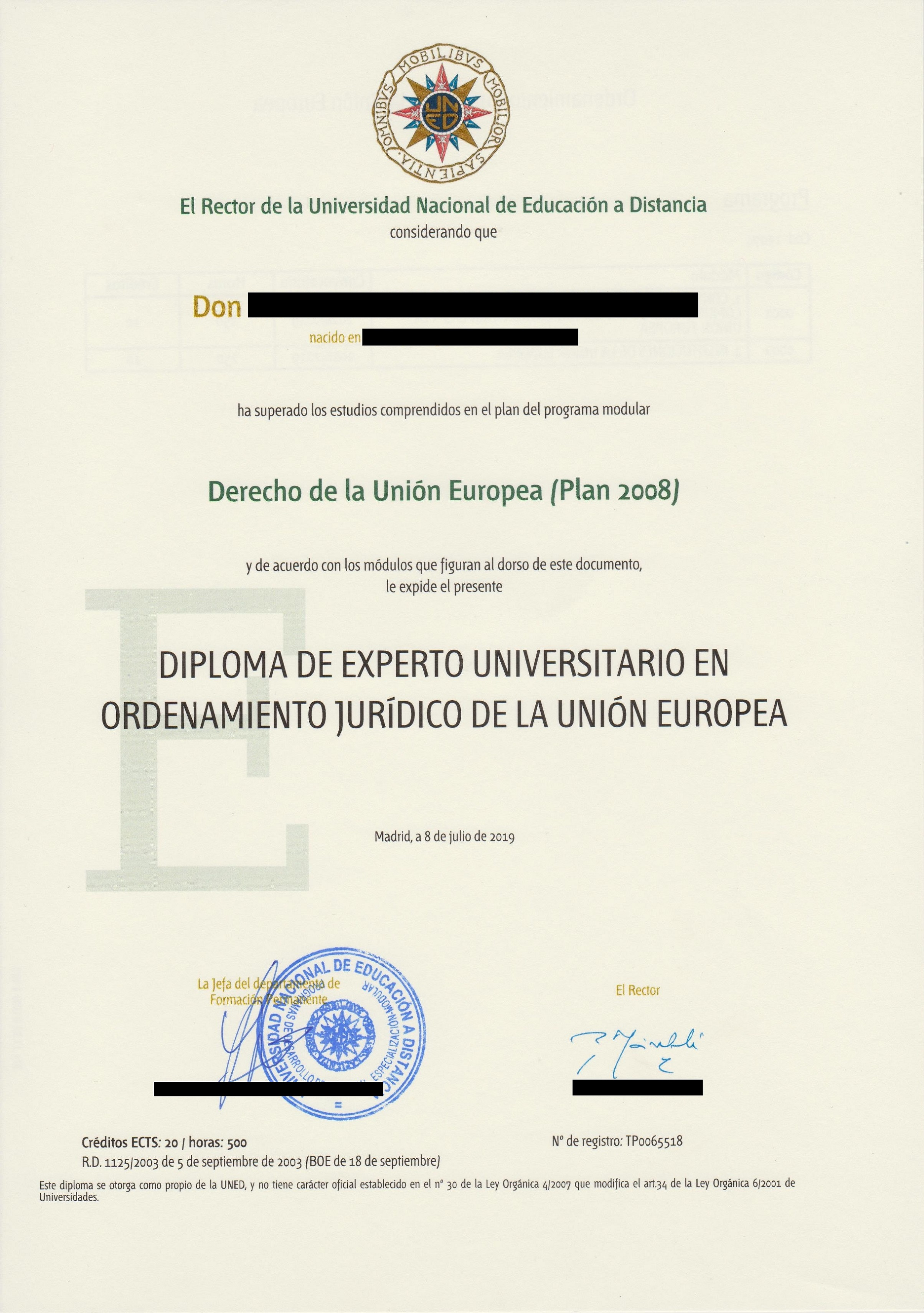 Postgraduate Certificate in European Union Legal Framework, National University of Distance Learning, Spain.